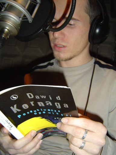 Dawid Kornaga reading his works